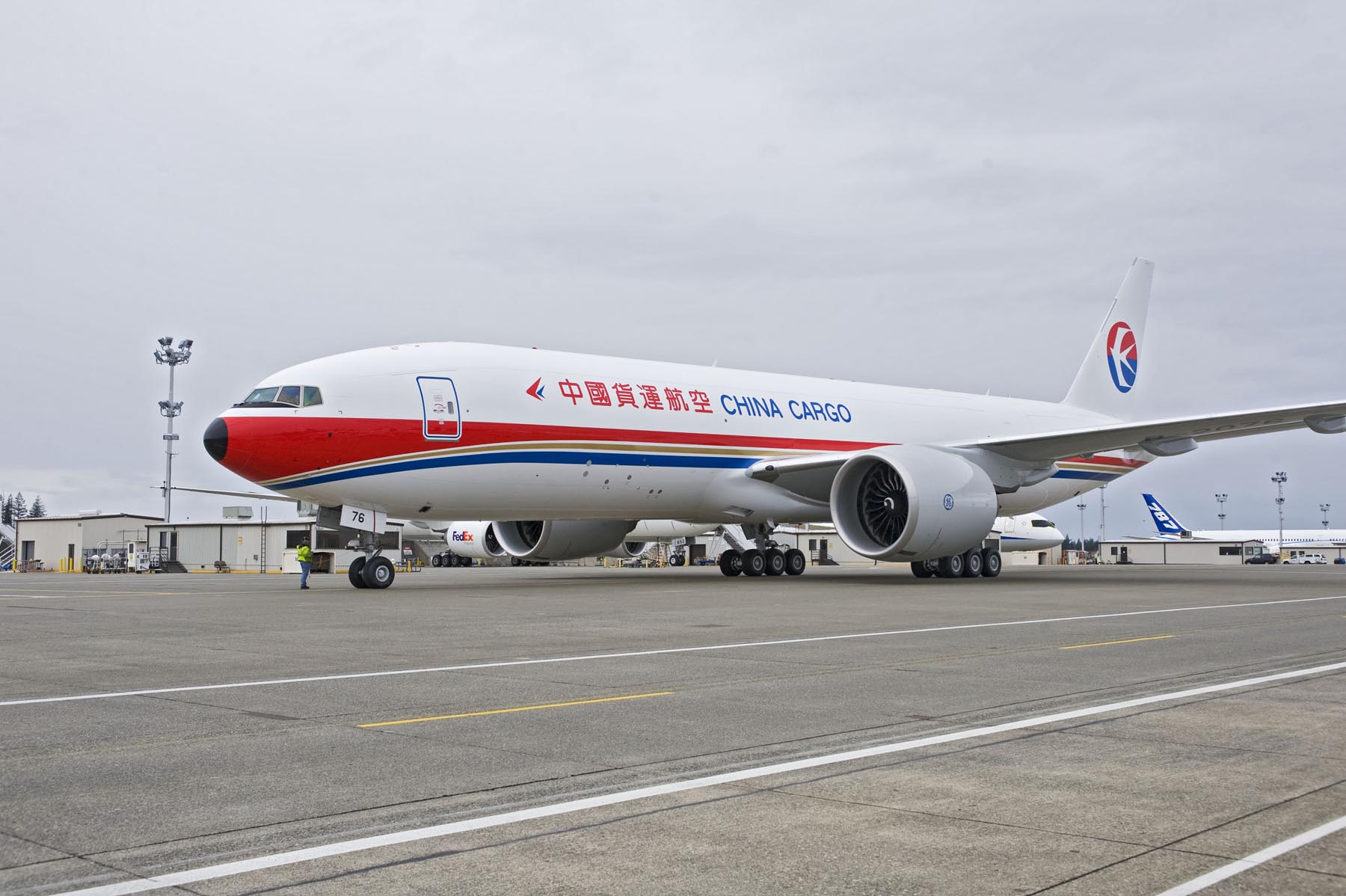 China Cargo Airlines Boeing B777-200F